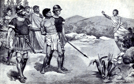 Elementary history of Greece, made up principally of stories about persons, givingat the same time a clear idea of the most important events in the ancient world and calculated to enforce the lessons of perseverance, courage, patriotism, and virtue that are taught by the noble lives described. Beginning with the legends of Jason, Theseus, and events surrounding the Trojan War, the narrative moves on to present the contrasting city-states of Sparta and Athens, the war against Persia,their conflicts with each other, the feats of Alexander the Great, and annexation by Rome.